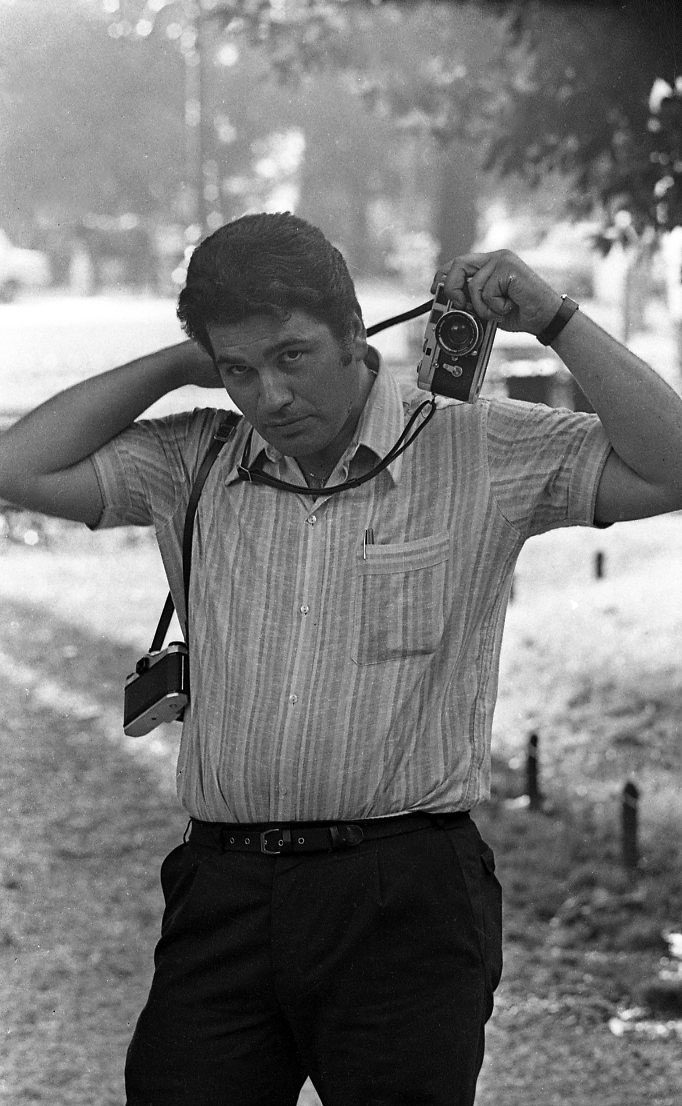 Foto di Andrea Nemiz © MGMC. Anni '70-'80